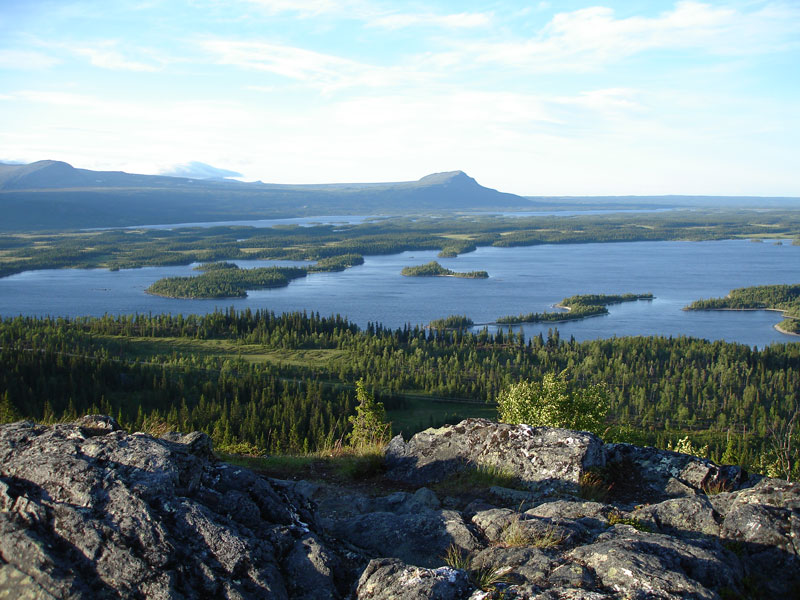 View of lake Kultsjön from the hill Middagskullen in Saxnäs, Västerbotten county, Sweden